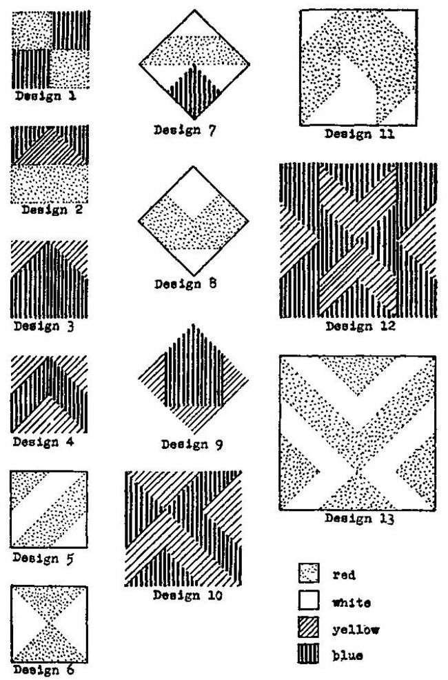 The second figure from "The Block-Design tests" by S.C. Kohs, 1920 — A chart of the designs to be made using the blocks.